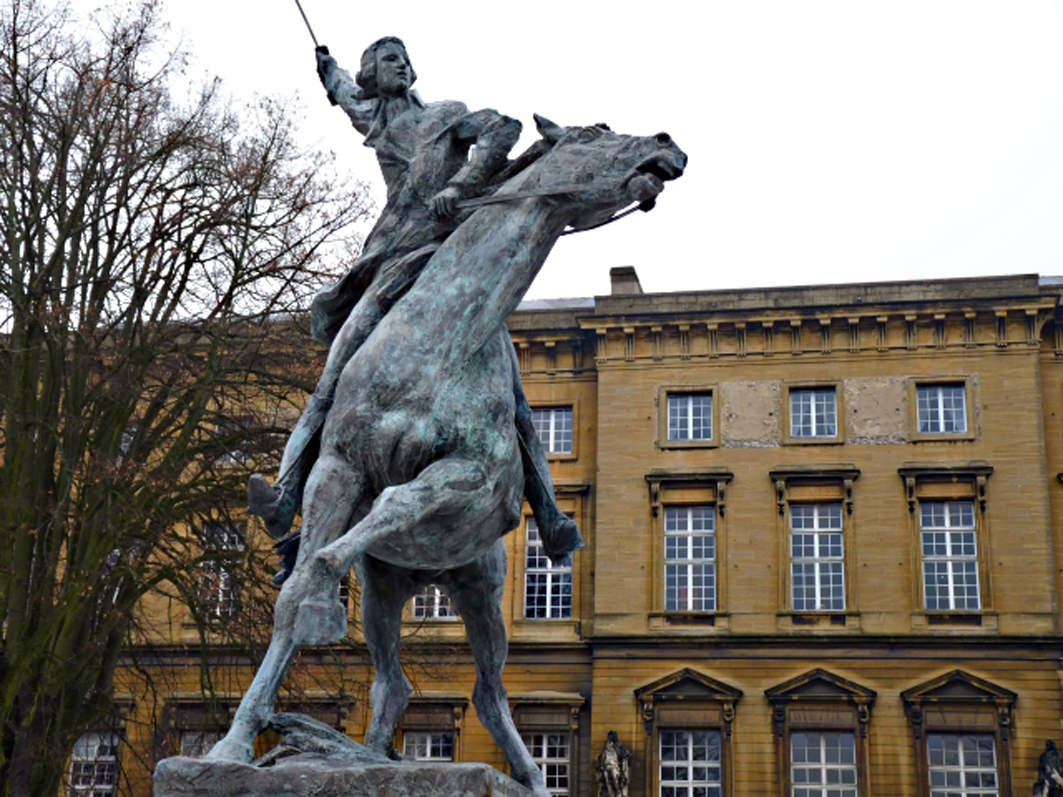 Statue of Lafayette in front of the justice court (once Palace of the Royal Governor), place of the diner of Metz, when Lafayette decided to join the American Revolutionary War. (Metz, France).